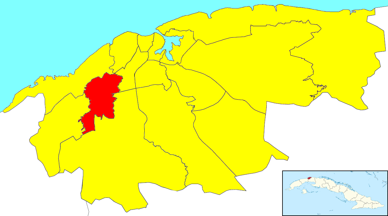 A map of the municipality of Marianao (shown in red) within the city of Havana (yellow). The little Cuban map in the corner shows Havana (dark red) within the island.